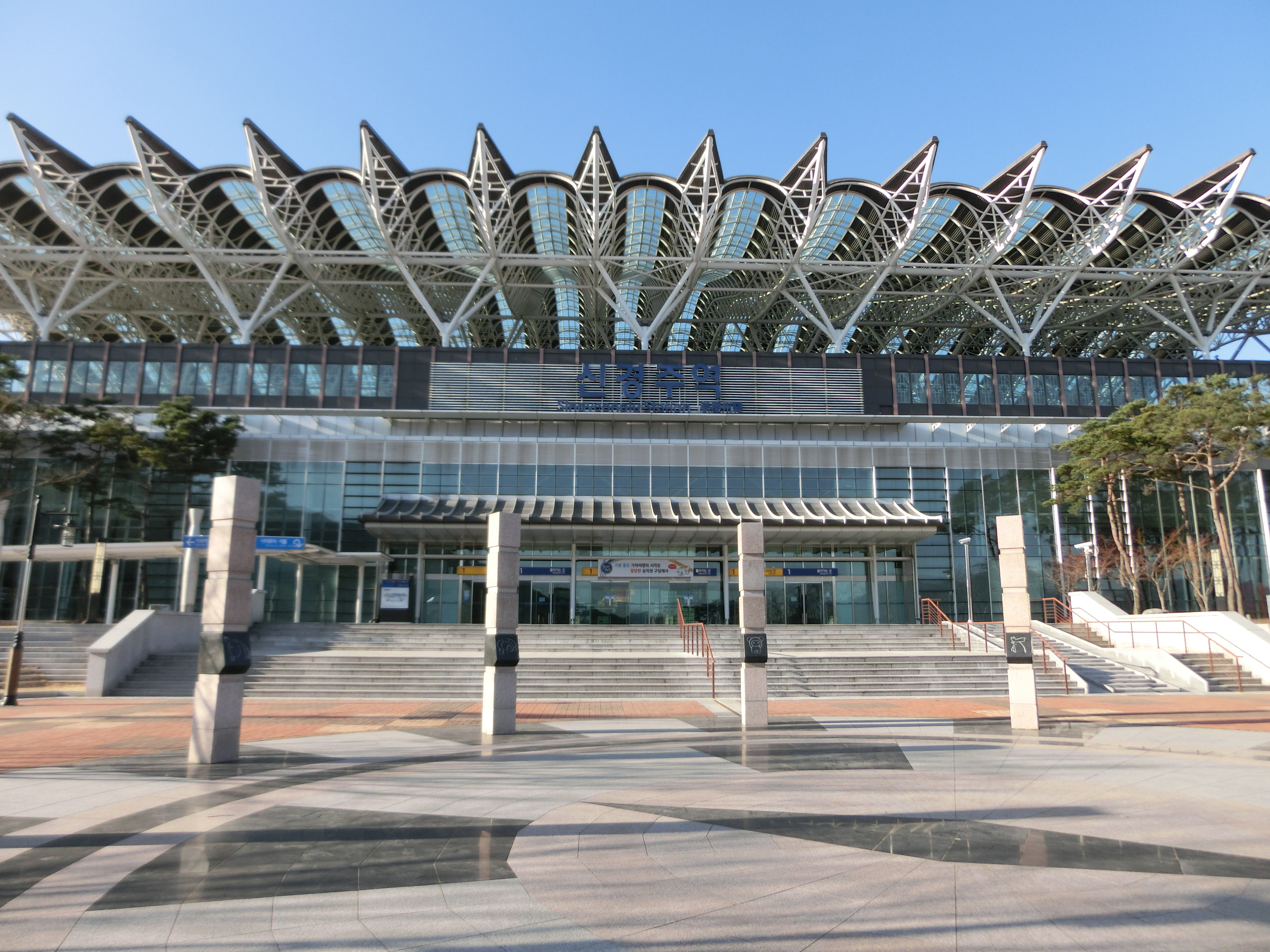 Singyeongju Station